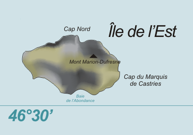 Map of Île de l’Est, Crozet Islands, in the Southern Indian Ocean